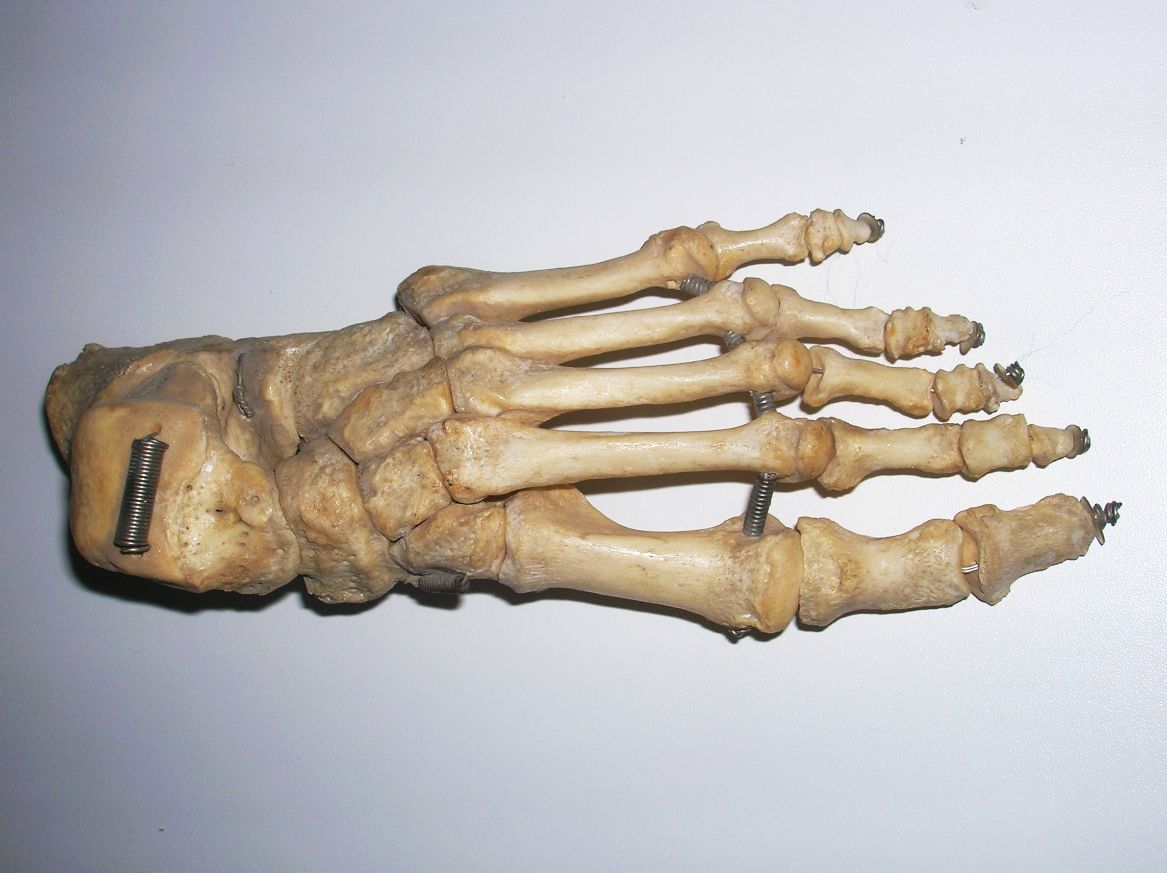 part of a human skeleton. Contains tarsus,metatarsus, phalanges